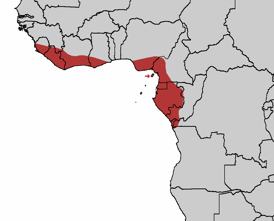 The Yellow-billed Turaco's Distribution.